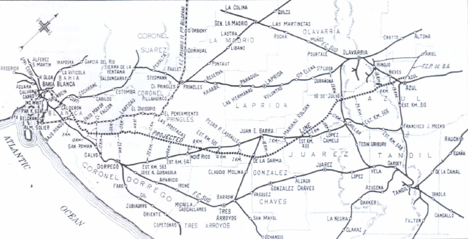 Some of the projects in Ferrocarril Provincial de Buenos Aires, finally not carried out. In this case, the branch from Azul to Bahía Blanca.